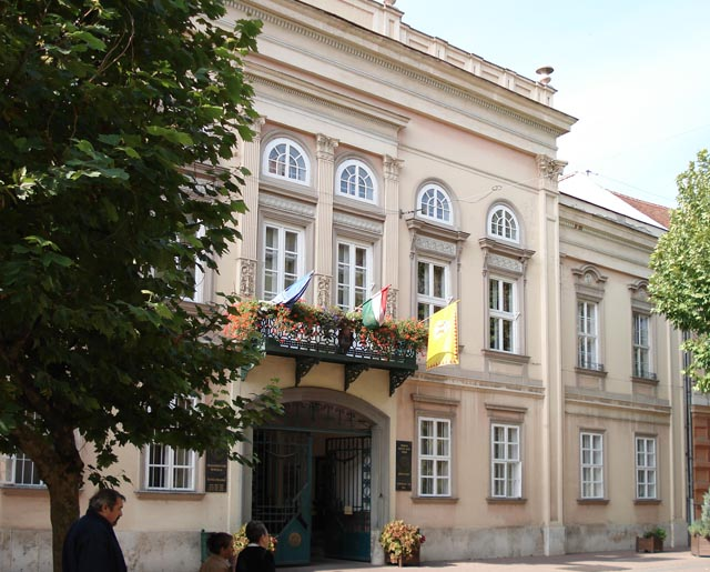 City Hall of Miskolc, Main building, Hungary